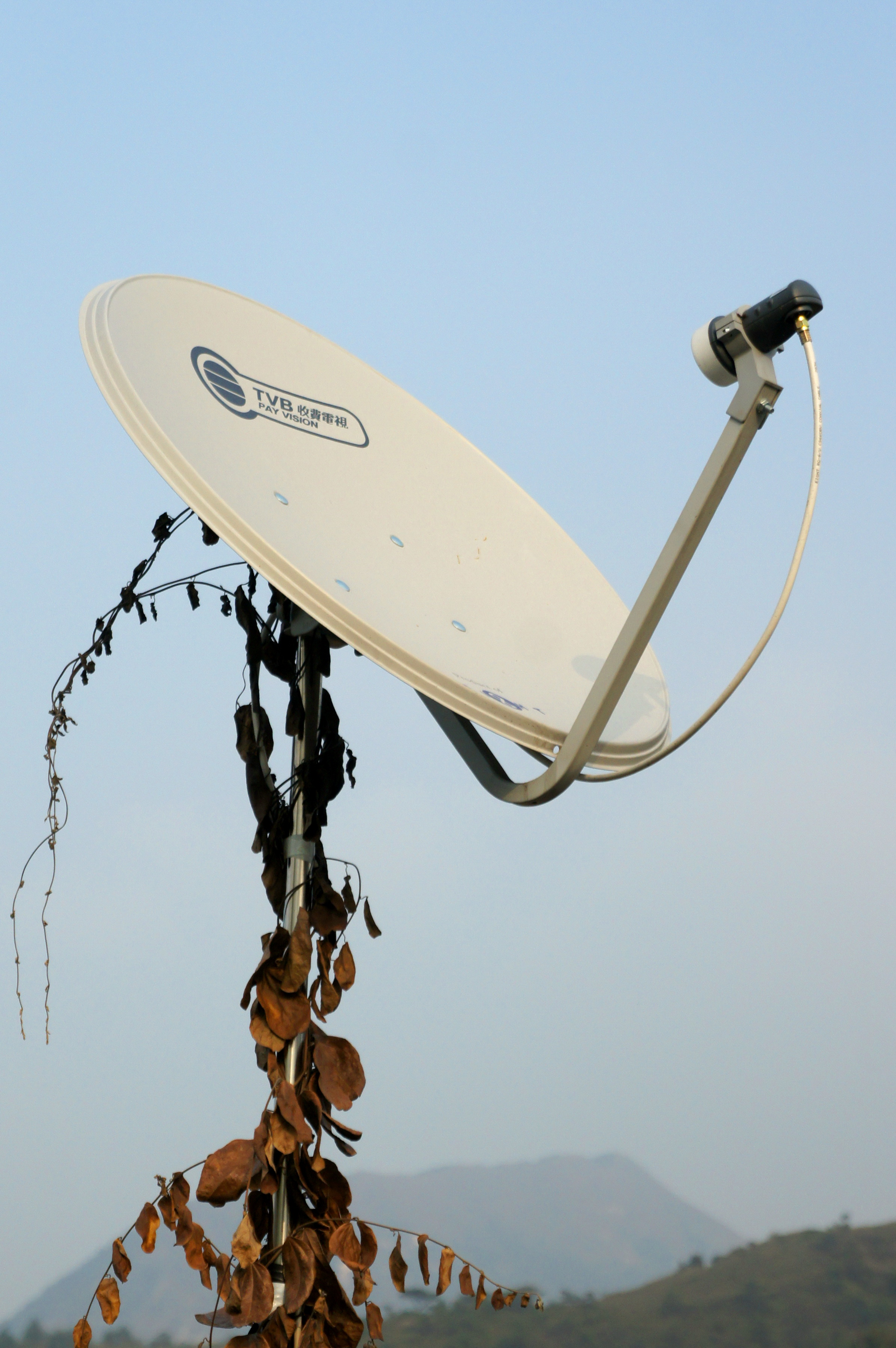 A satellite dish for TVB Pay Vision.